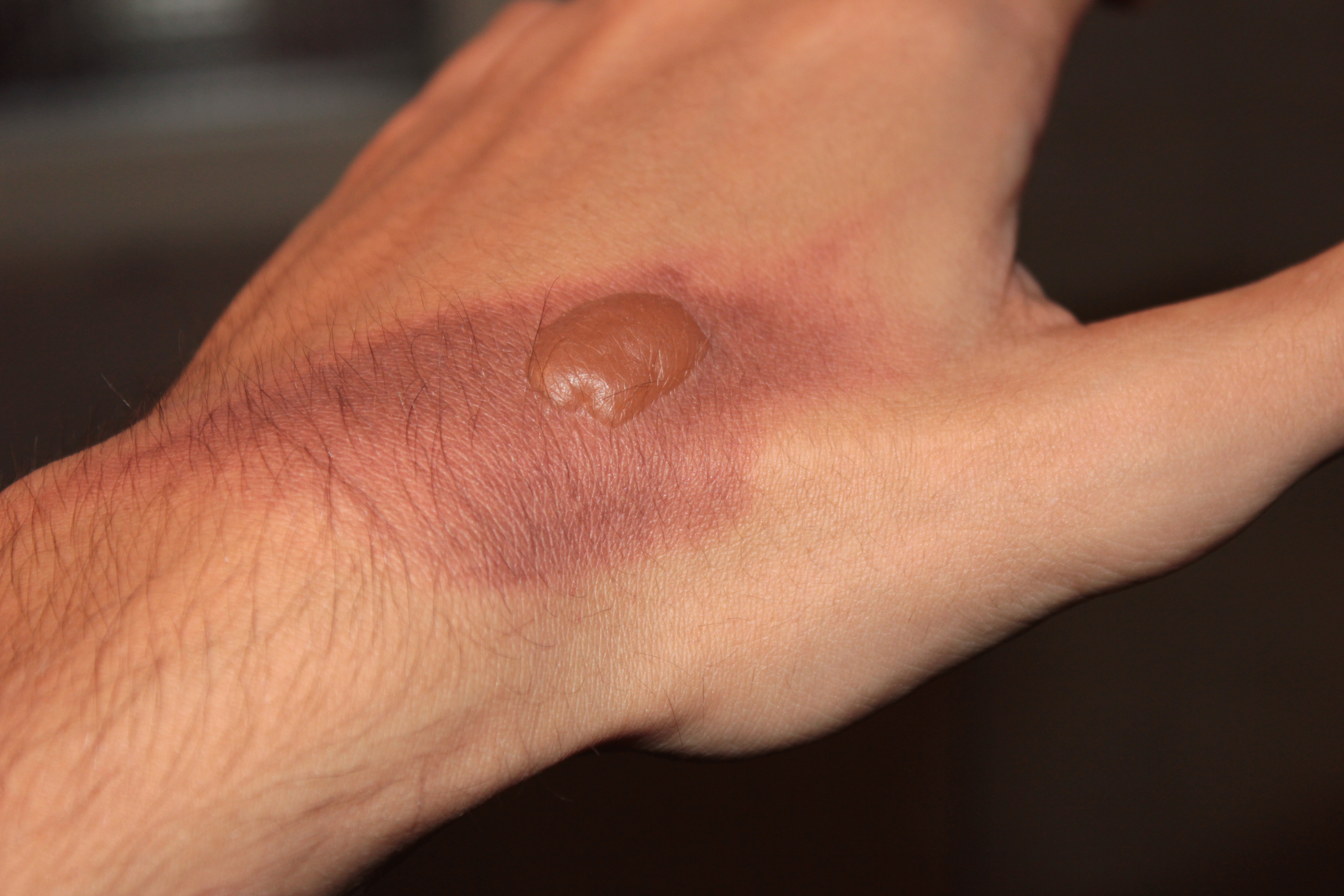 Scalded skin with thin-walled blister. Second degree burn after 2 days.